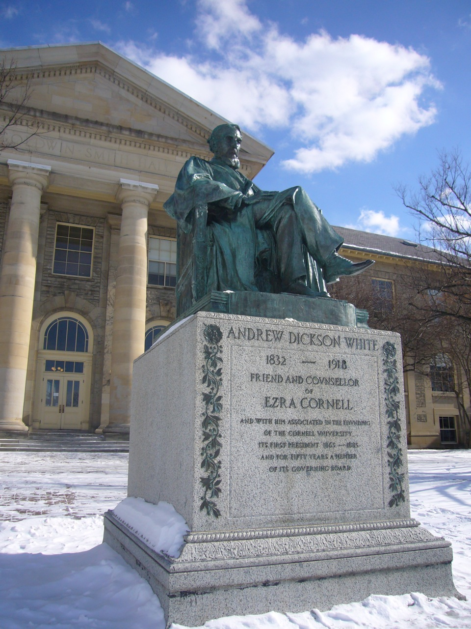 Created by user "foreverdigital" on Flickr. Under CC licence. Depicts the Andrew Dickson White statue at Cornell University created by Karl Bitter (1867-1915)